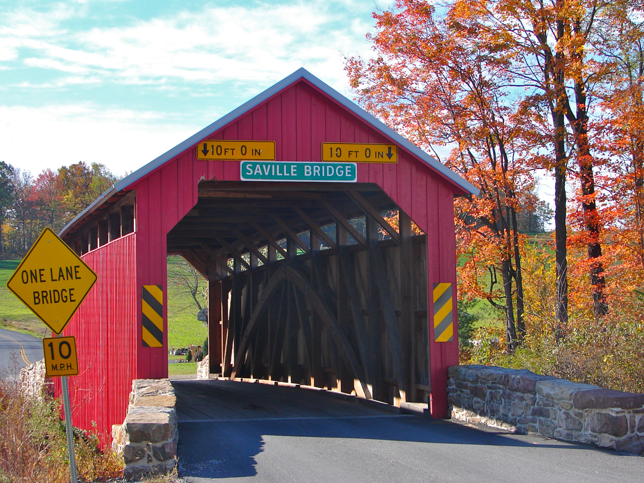 Saville Covered Bridge on the NRHP since August 25, 1980. On Saville Road aka Legislative Route 50037 Saville Township, Perry County, Pennsylvania. The prettiest bridge in Perry County. See also Saville_PA_C_Bridge_1.JPG Object location40° 26′ 17″ N, 77° 23′ 47″ W